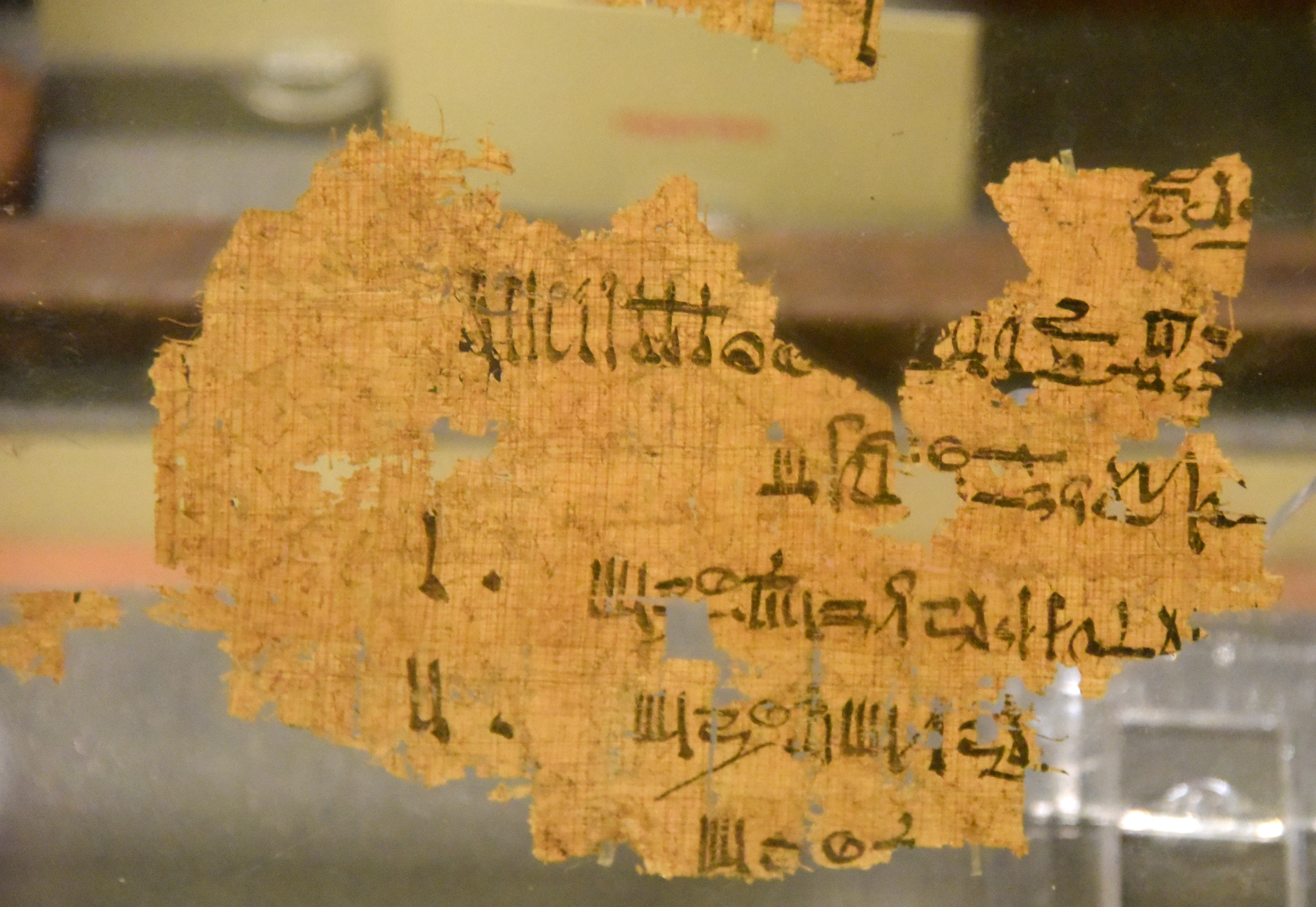 Piece of papyrus bearing the name of Maathorneferura, the Hittite princesses and daughter of the great ruler of Khatti, who married Ramesses II. The papyrus is palace accounts of clothes. From Gurob, Fayum, Egypt. The Petrie Museum of Egyptian Archaeology, London. With thanks to the Petrie Museum of Egyptian Archaeology, UCL.